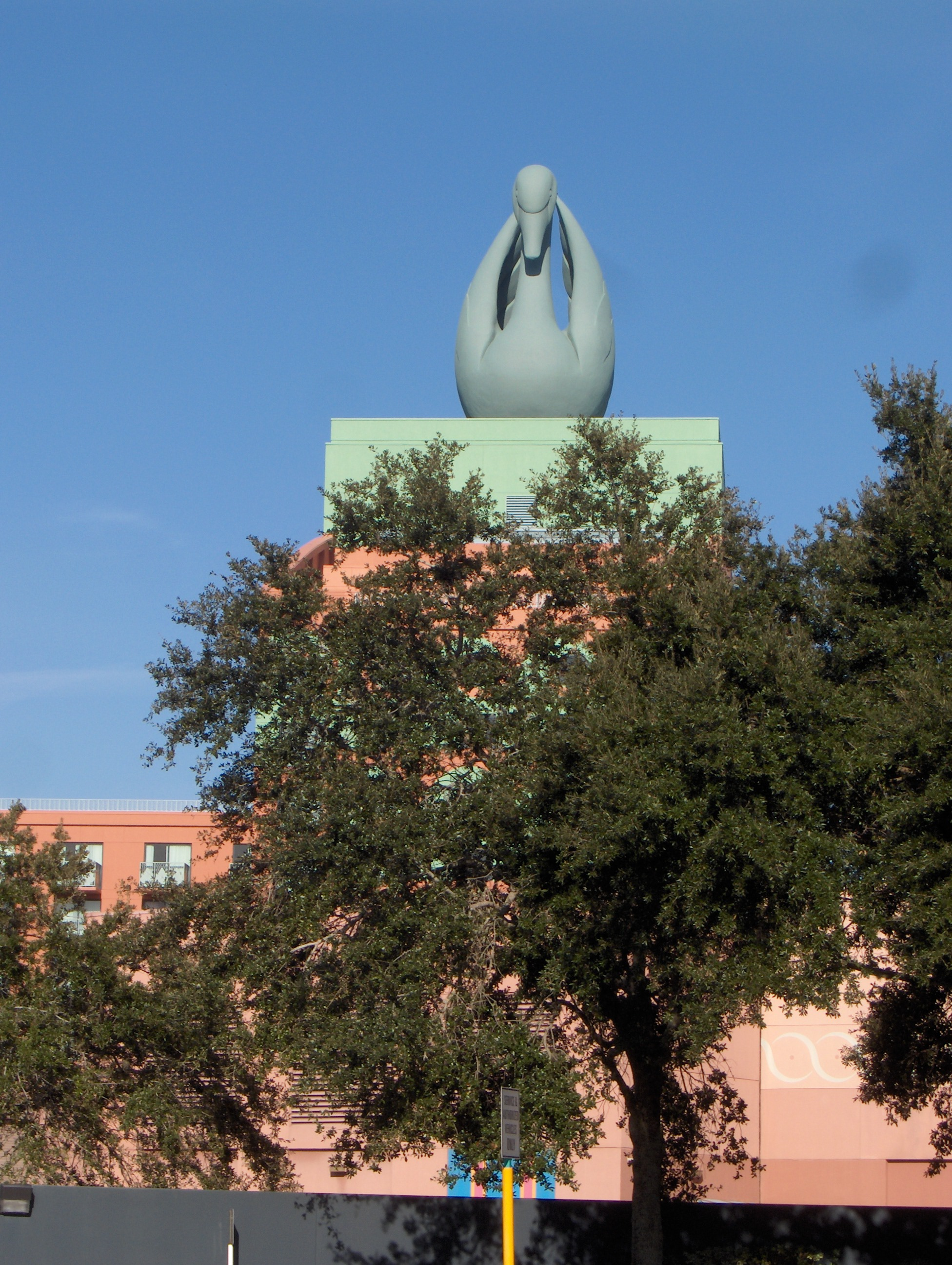 The Swan Hotel, Walt Disney World.